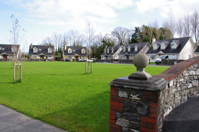 Glanworth, Arbour Mews, near to Glanworth, Manning and Brawnroe Cross Roads, Cork, Ireland. A small housing development off the R512.